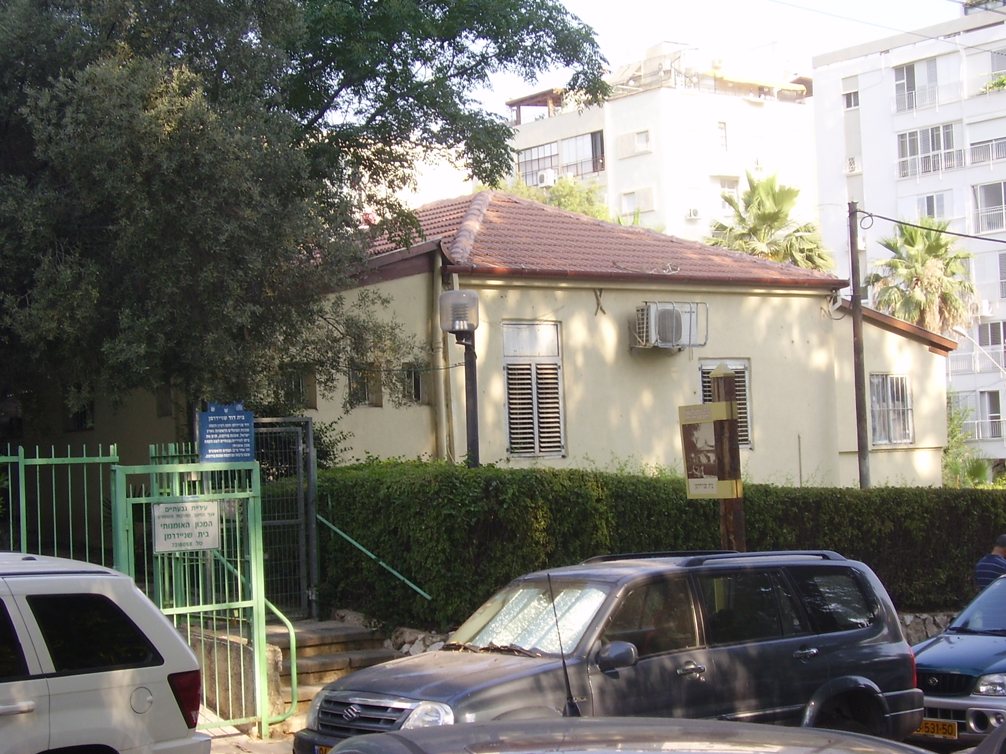 Schneiderman house in Givataym